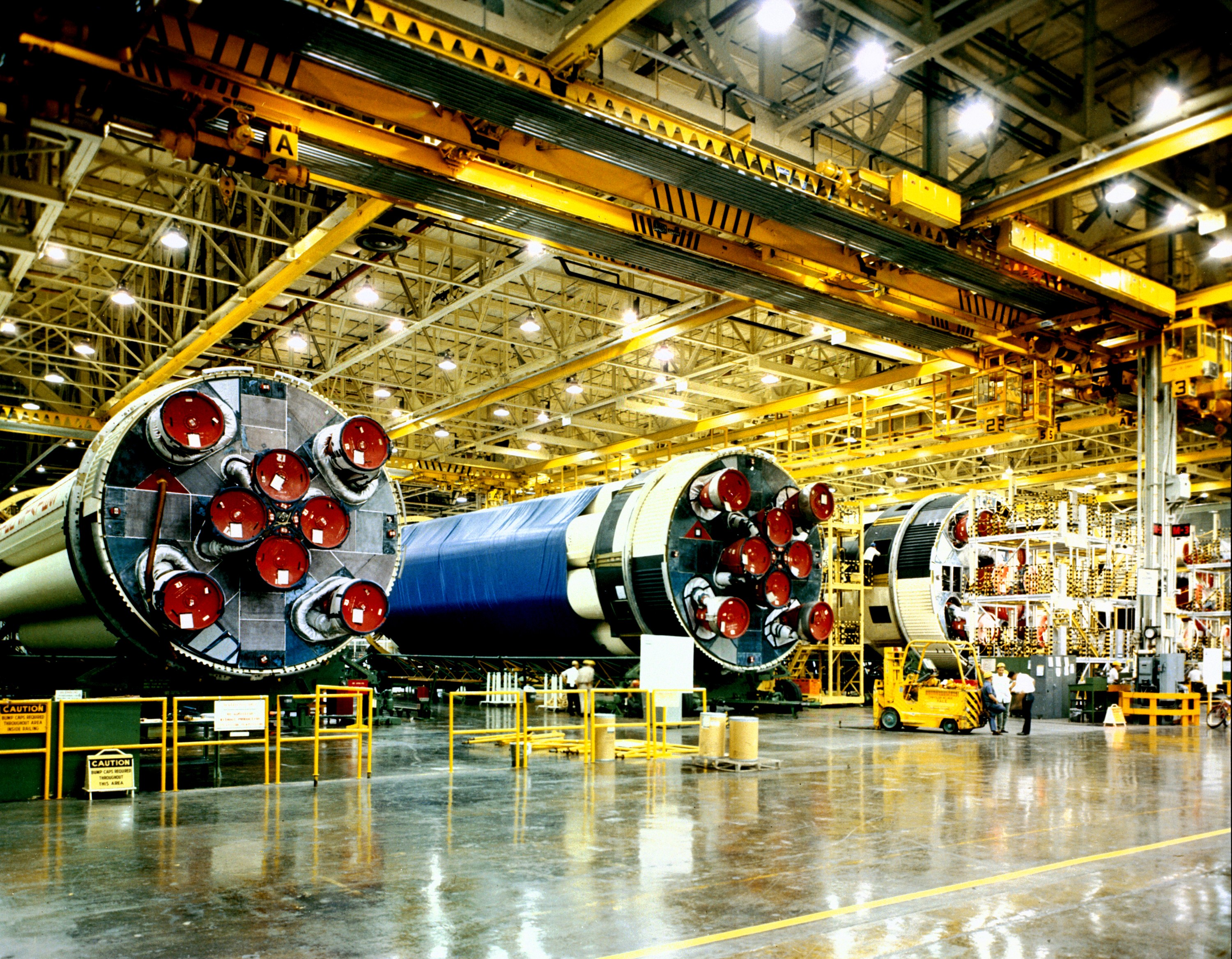 The first stages of the Saturn IB, (from left to right) S-IB-7, S-IB-9, S-IB-5 and S-IB-6, in the final assembly area of Michoud Assembly Facility (MAF).